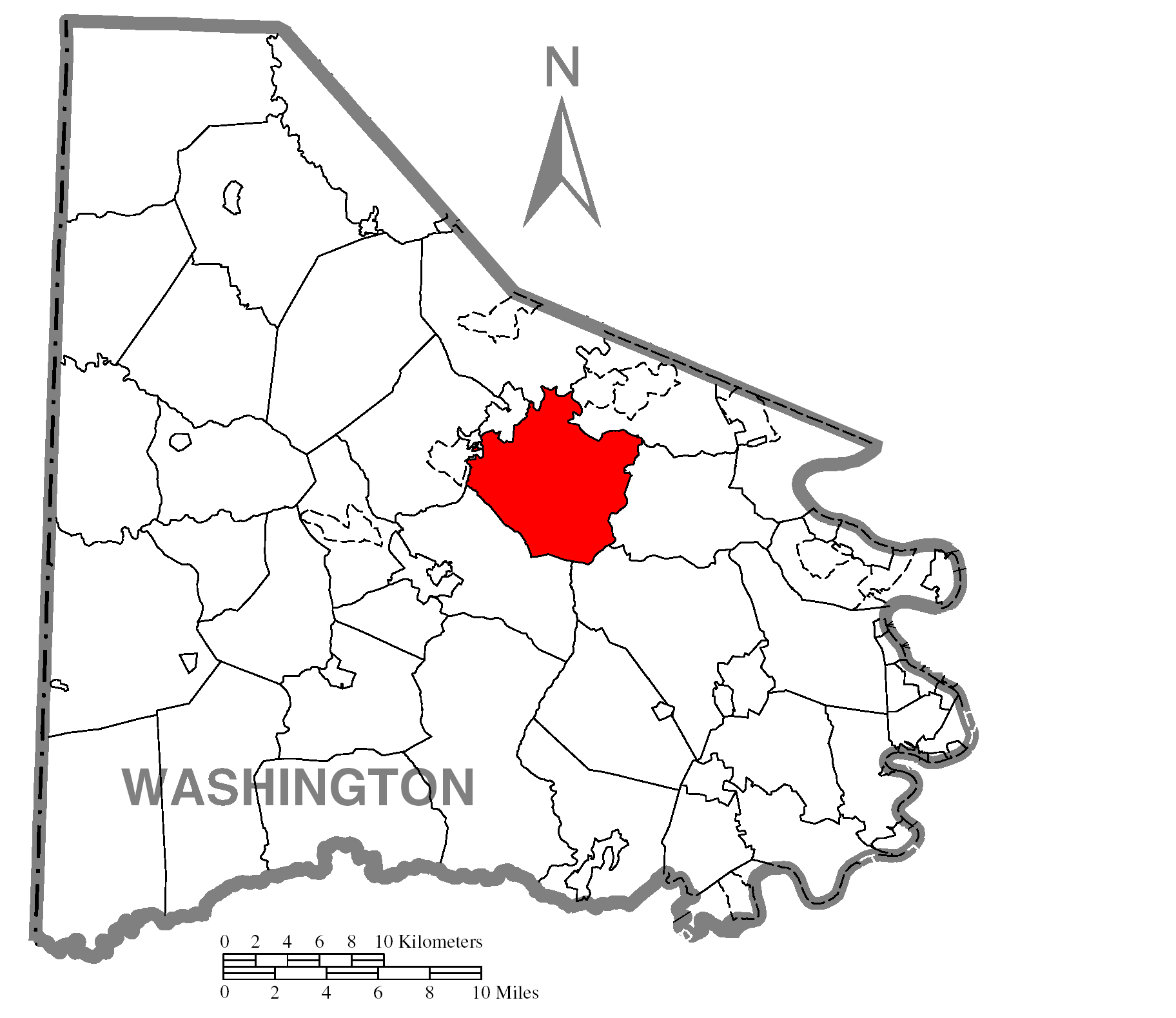 Map of Washington County higlighting North Strabane Township.